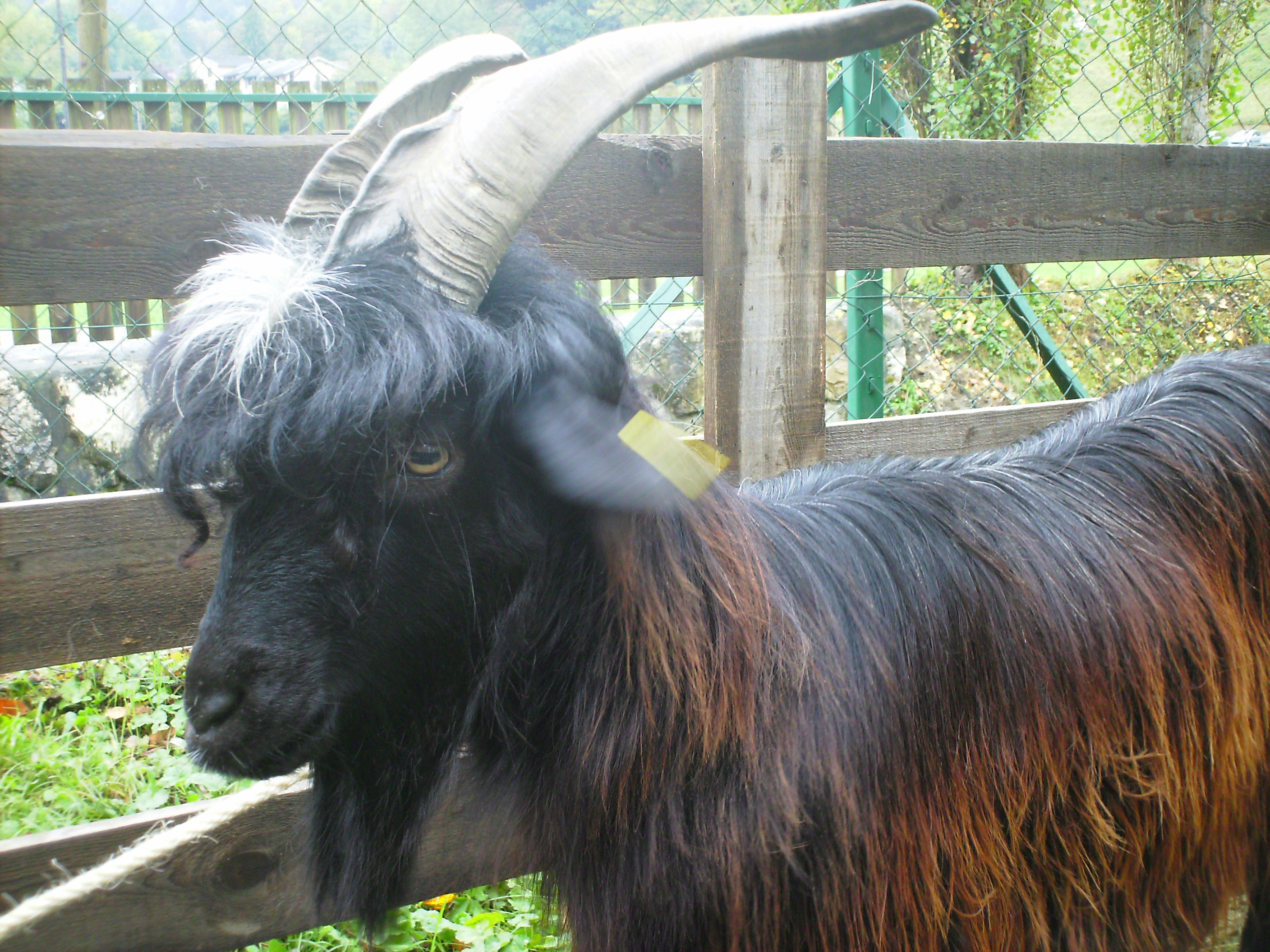 A goat, "Pyrénéenne" race